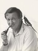 Bertel Bruun with bird